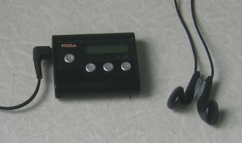 MSI MEGA PLAYER 538 Lite (MS-5538) MP3-player / digital audio player. Autor: Mardus — user pages @ en & commons